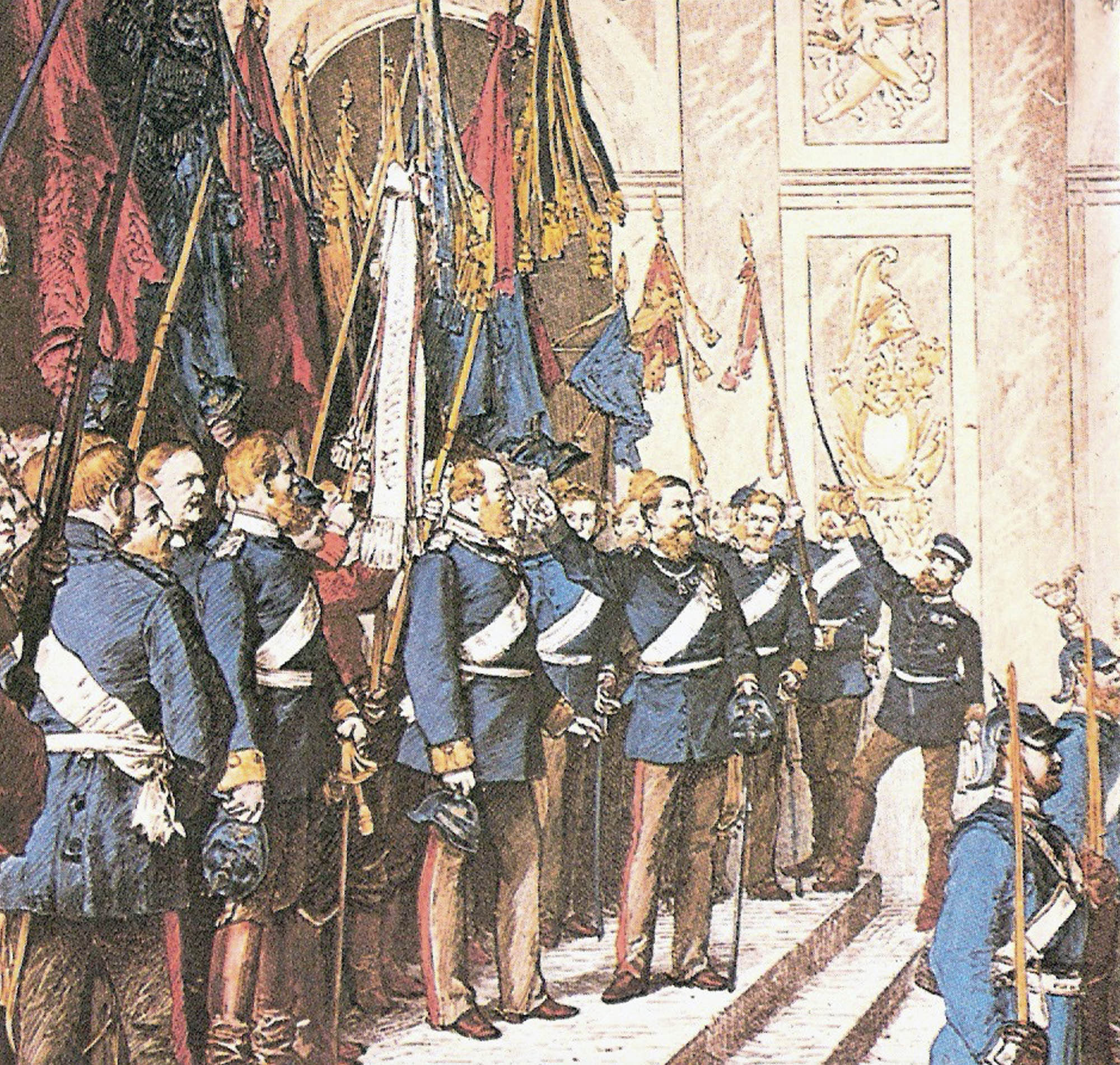 The German empire is proclaimed in the Hall of Mirrors in the palace of Versailles.